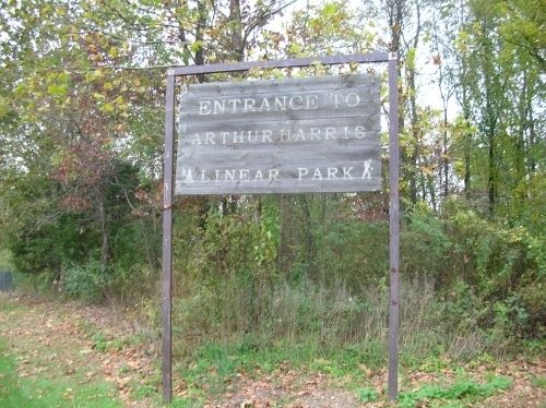 This image depicts the sign at the entrance to Arthur A. Harris Linear Park, located in Brookfield, Connecticut.